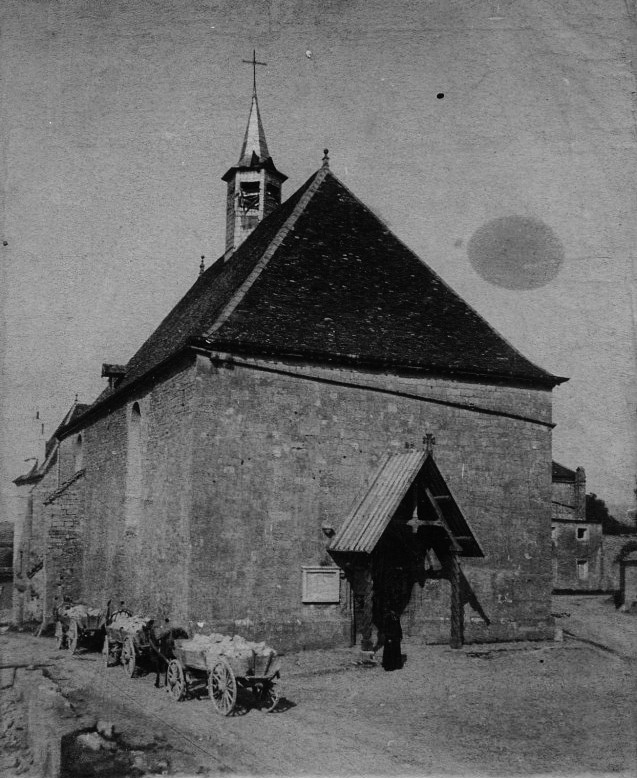 The church of Saint-Ferjeux, before the construction of the Basilica of Saint-Ferjeux, in Besançon (Doubs, France)